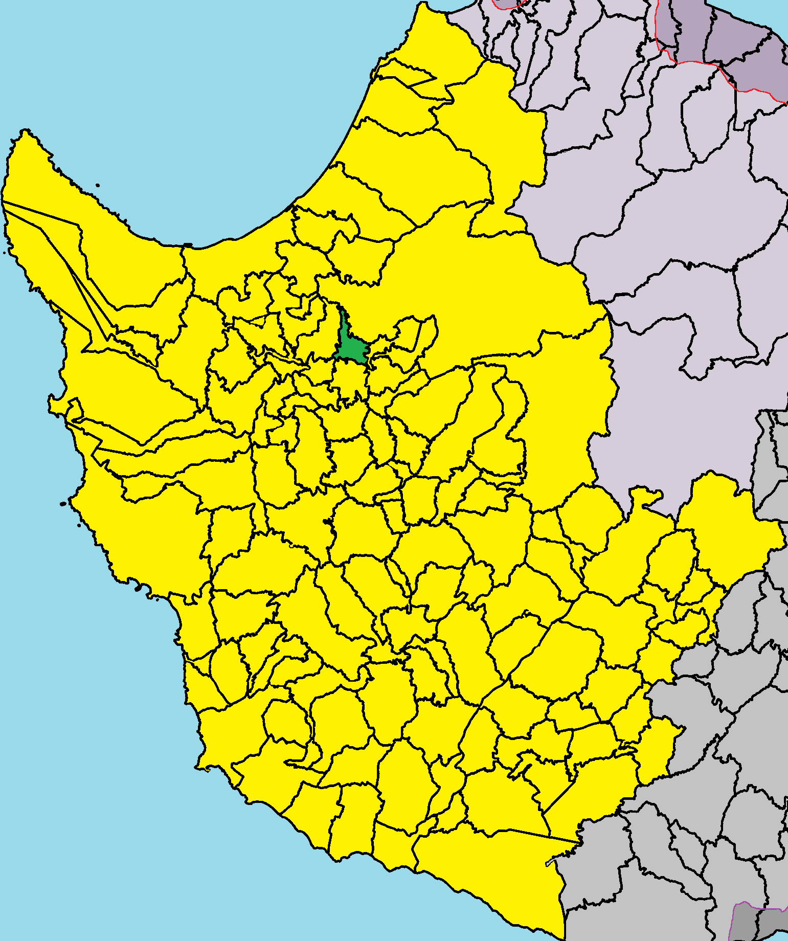 Meladeia in Paphos District.